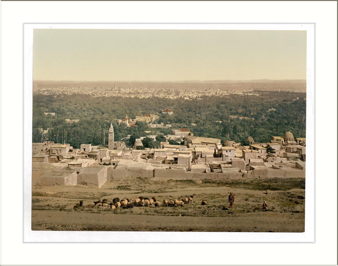 From Sallah Damascus Holy Land (i.e. Syria)